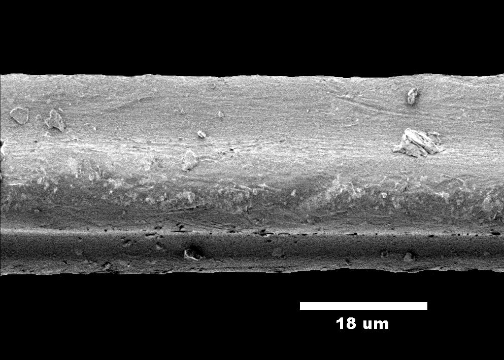 Scanning electron microscope image of a nylon fibre